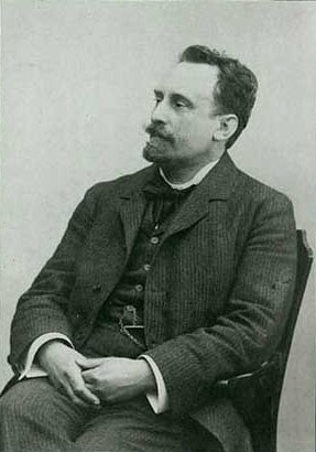 Viggo Stuckenberg (1863-1905), Danish poet and writer